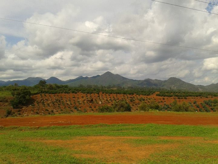 Panoramica Cerro de los tres picos (Tacambaro, Michoacan)